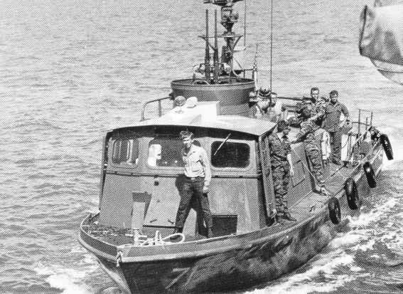 Swift Boat PCF 71